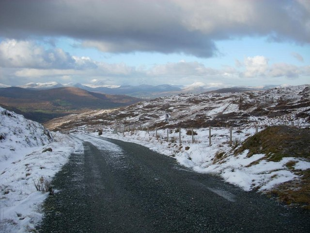 Summit of the Pass, Priest's Leap, County Cork Taken on a foolhardy trip across the mountain pass with a temperature below freezing and unsalted roads.